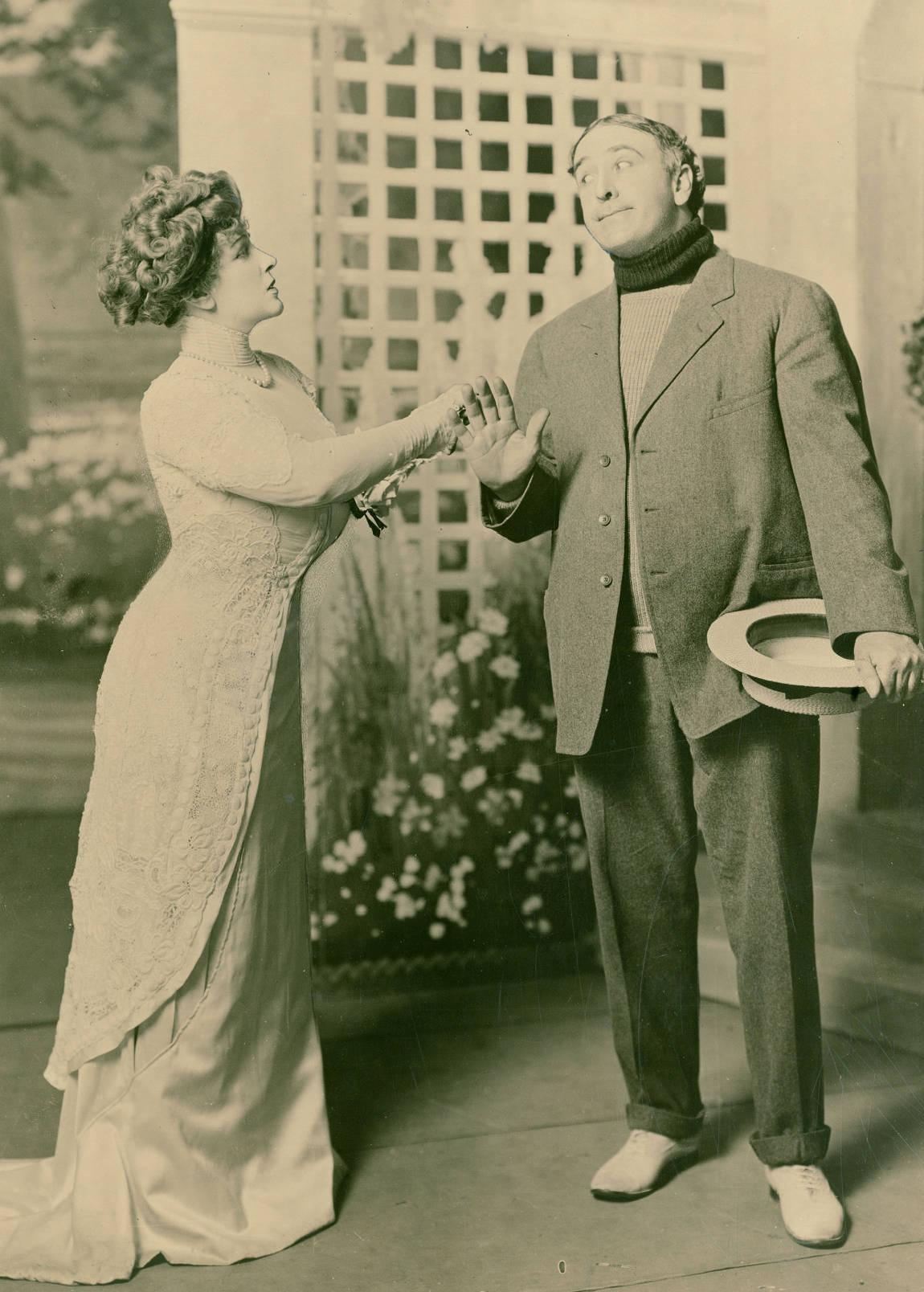 Lillian Russell & Frank Sheridan in the play Wildfire, Broadway, Liberty Theatre - publicity still